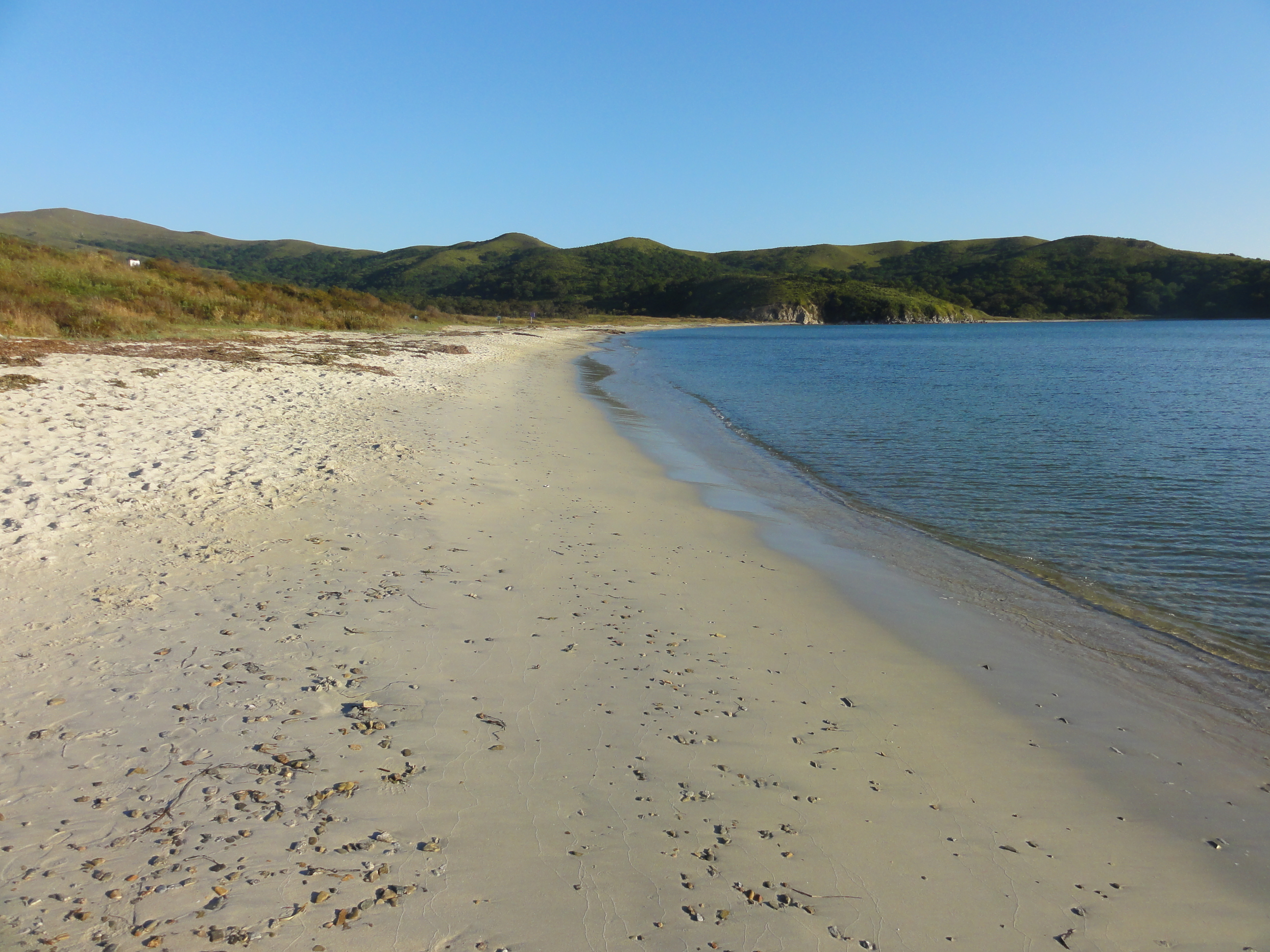 Astafyev inlet in Far east marine reserve